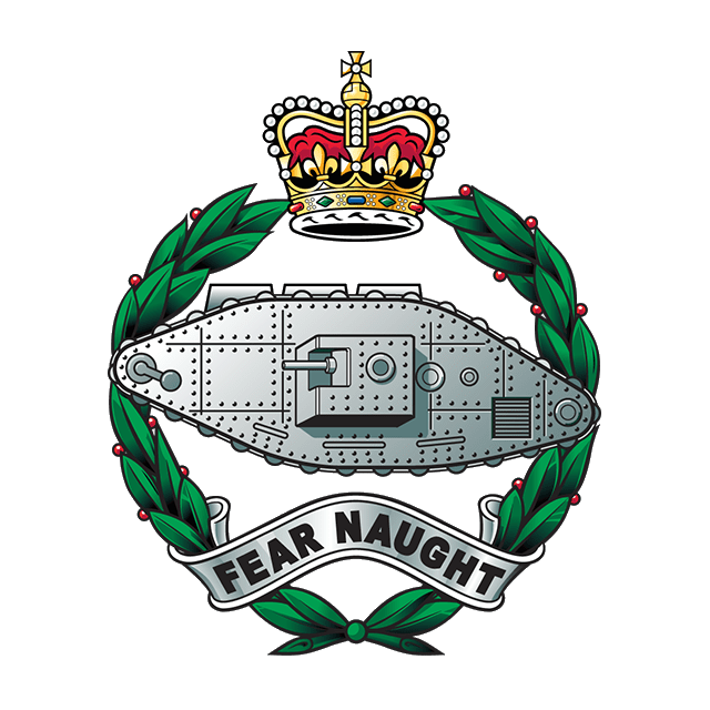 Royal Tank Regiment logo.